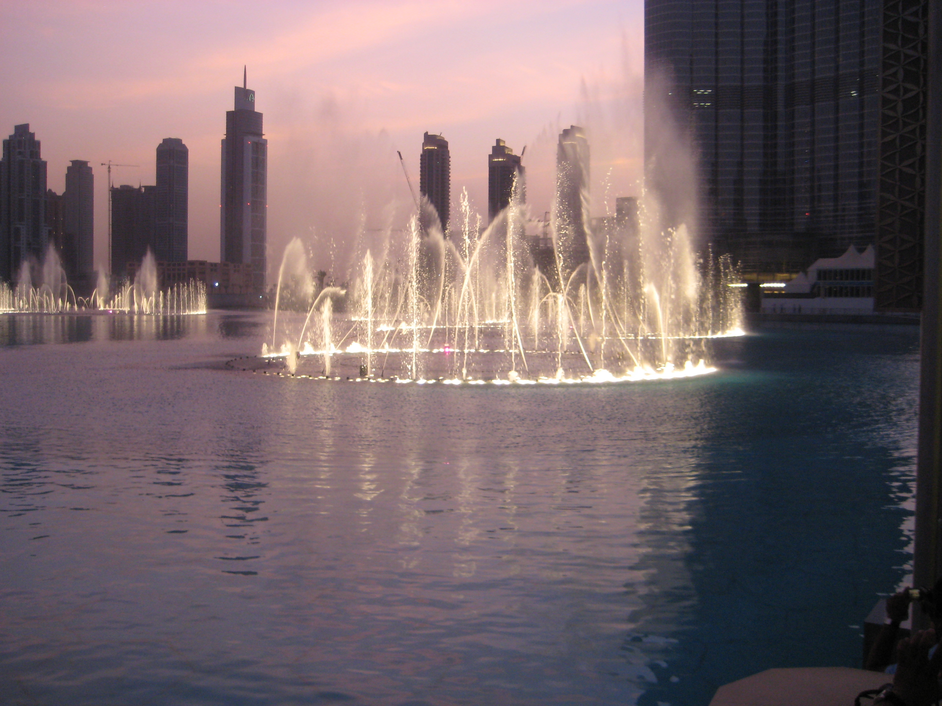 Fountain in Burj Khalifa, Dubai